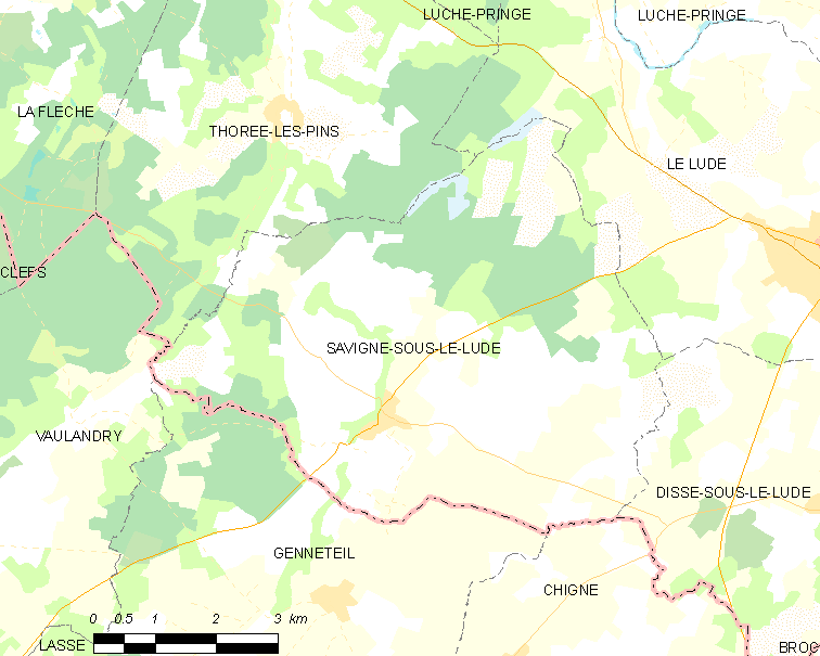 Map of French municipality